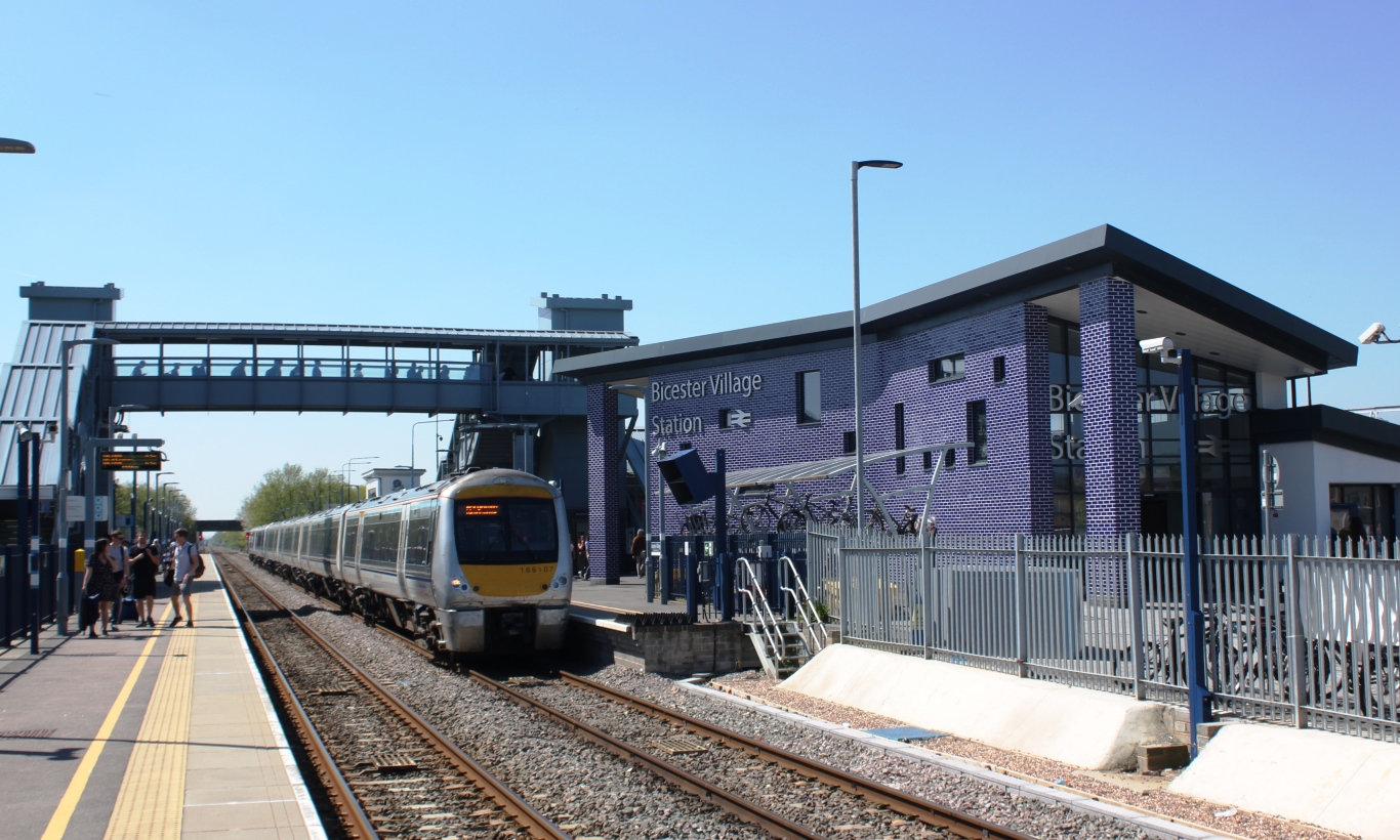 A Chiltern Railways' service from Oxford to London Marylebone calls at Bicester Village station. It is formed by 'Turnbostars' 168107 and 168325.